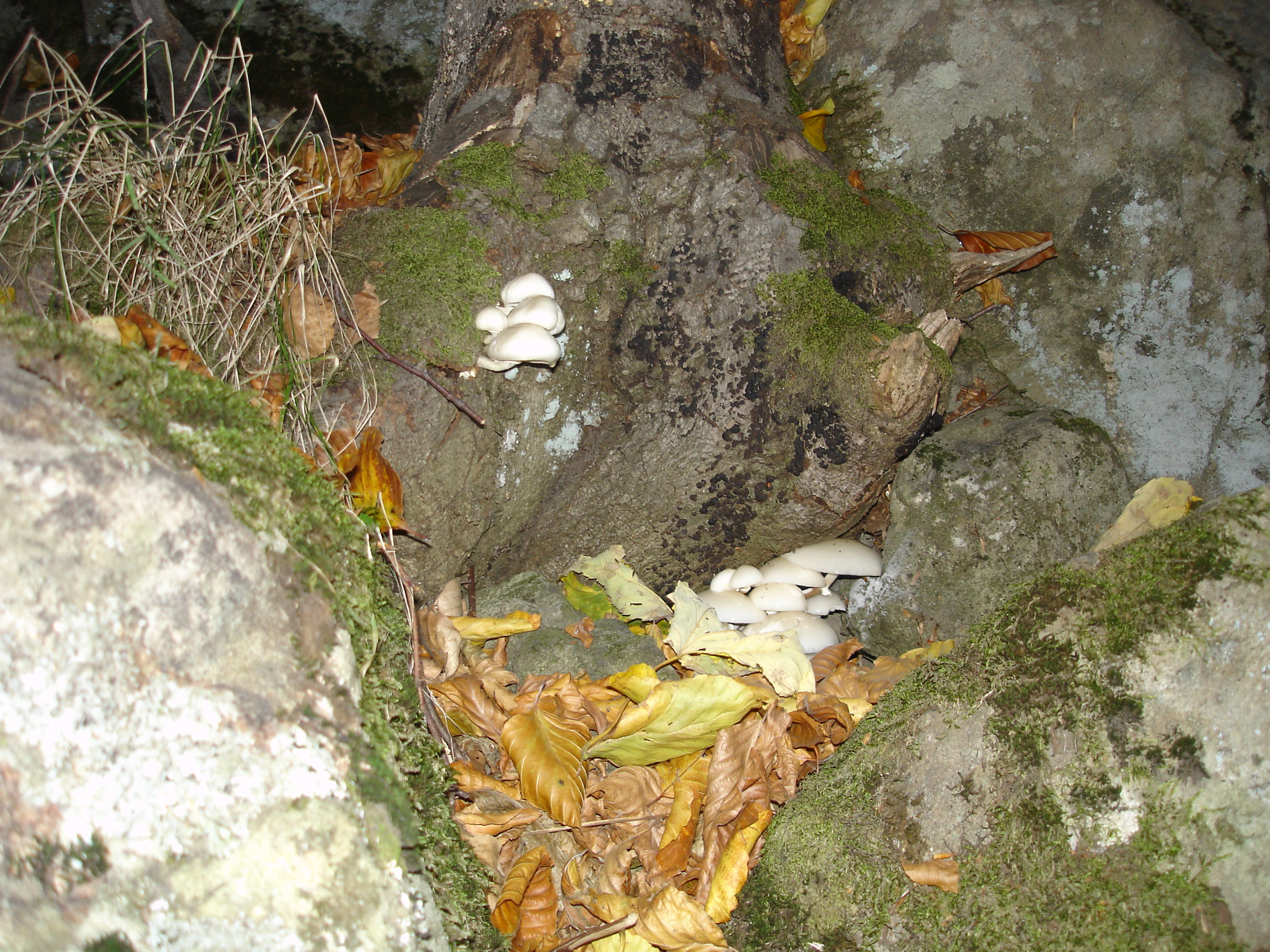 Mushrooms in Vitosha, Bulgaria